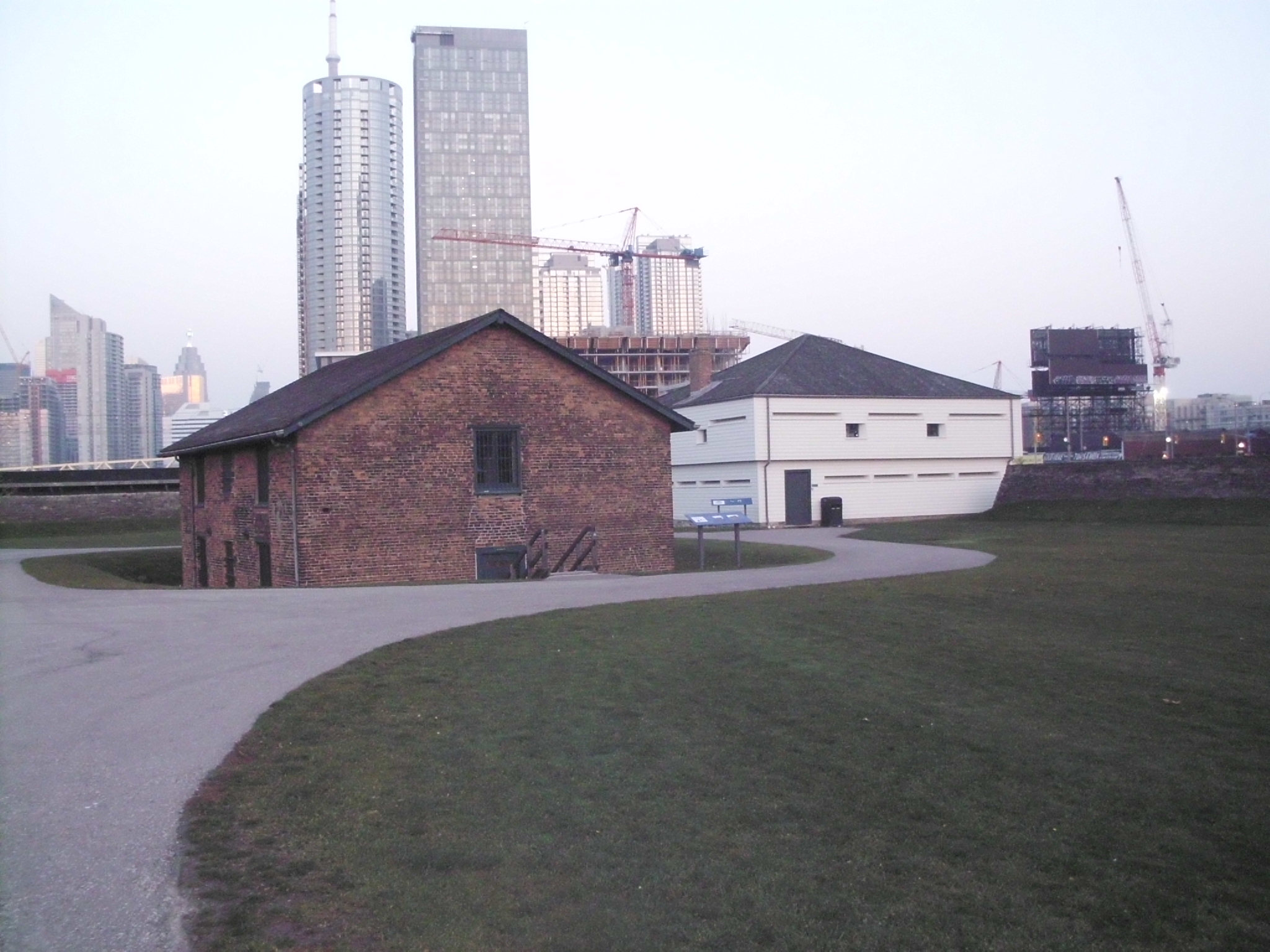 Fort York, in Toronto, Ontario, Canada.